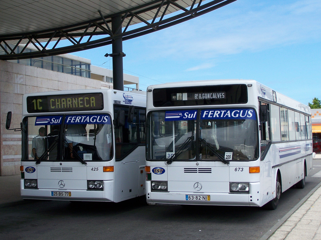 The SulFertagus shuttle busses at Corroios station.